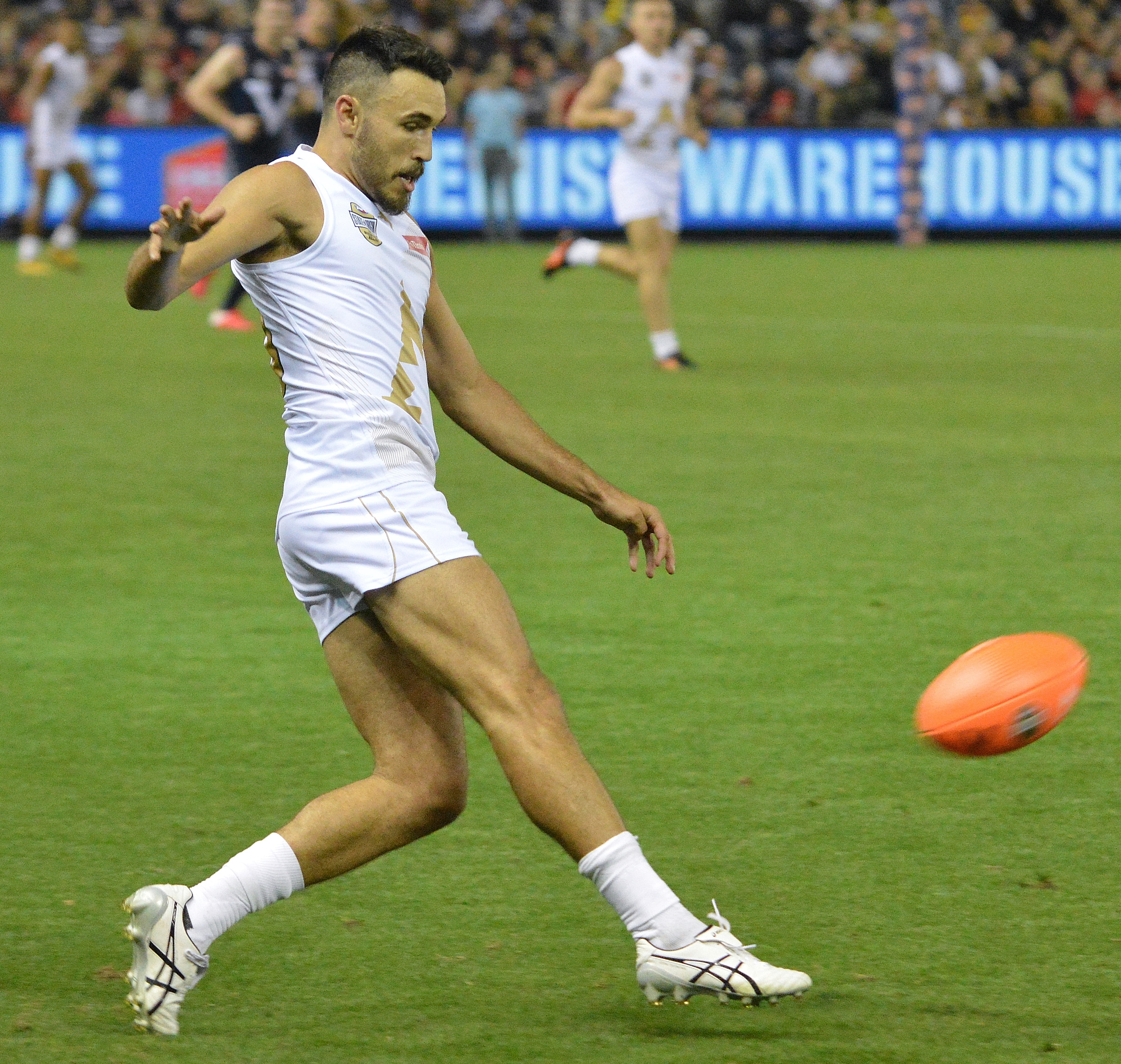 Shane Edwards at the AFL State of Origin for Bushfire Relief Match at Marvel Stadium in February 2020.